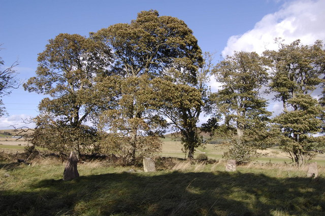 Sunhoney Stone Circle Basking in Autumn sunshine...